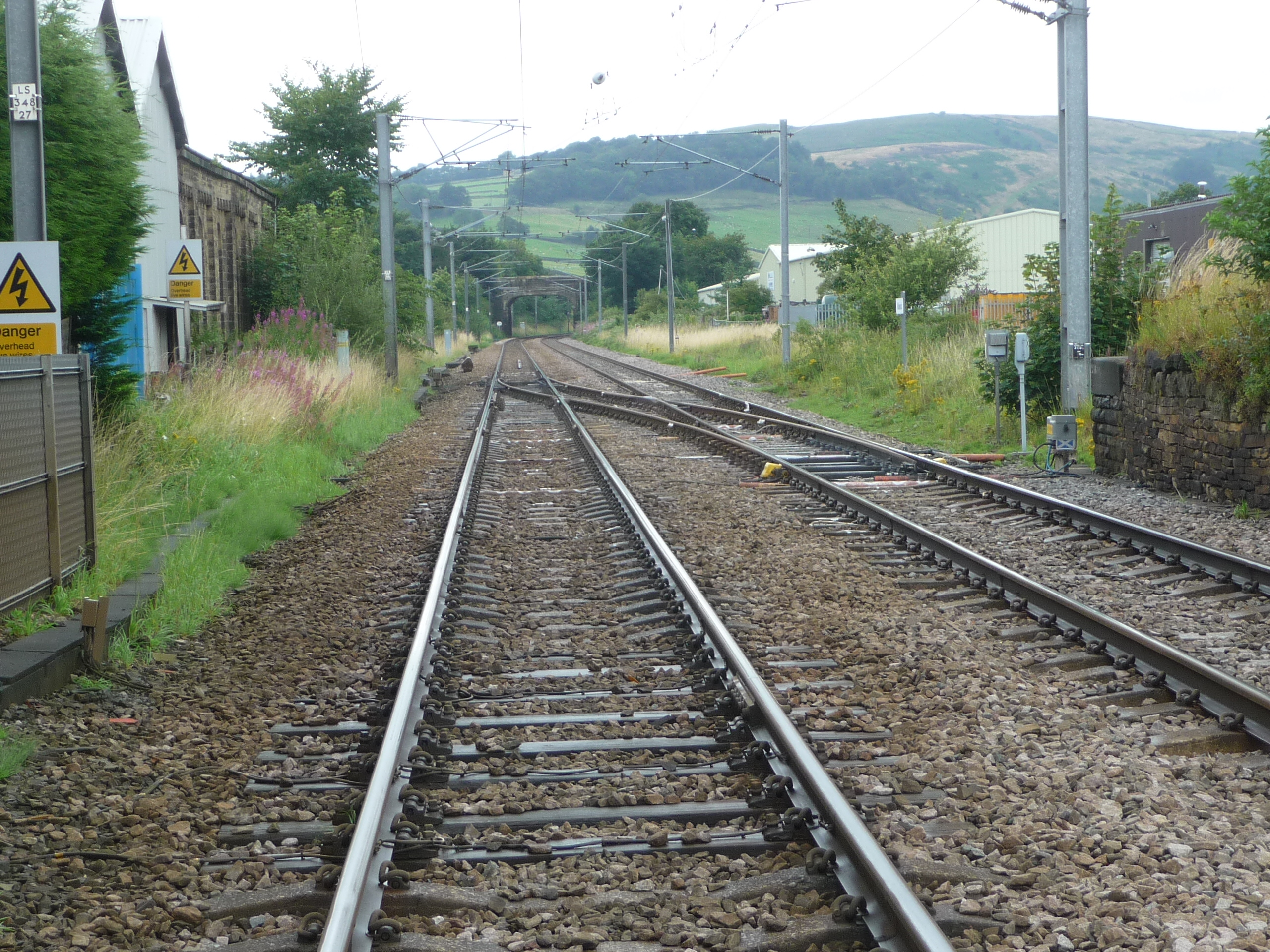 Cross Hills in North Yorkshire, United Kingdom. Site of Kildwick & Crosshills station.